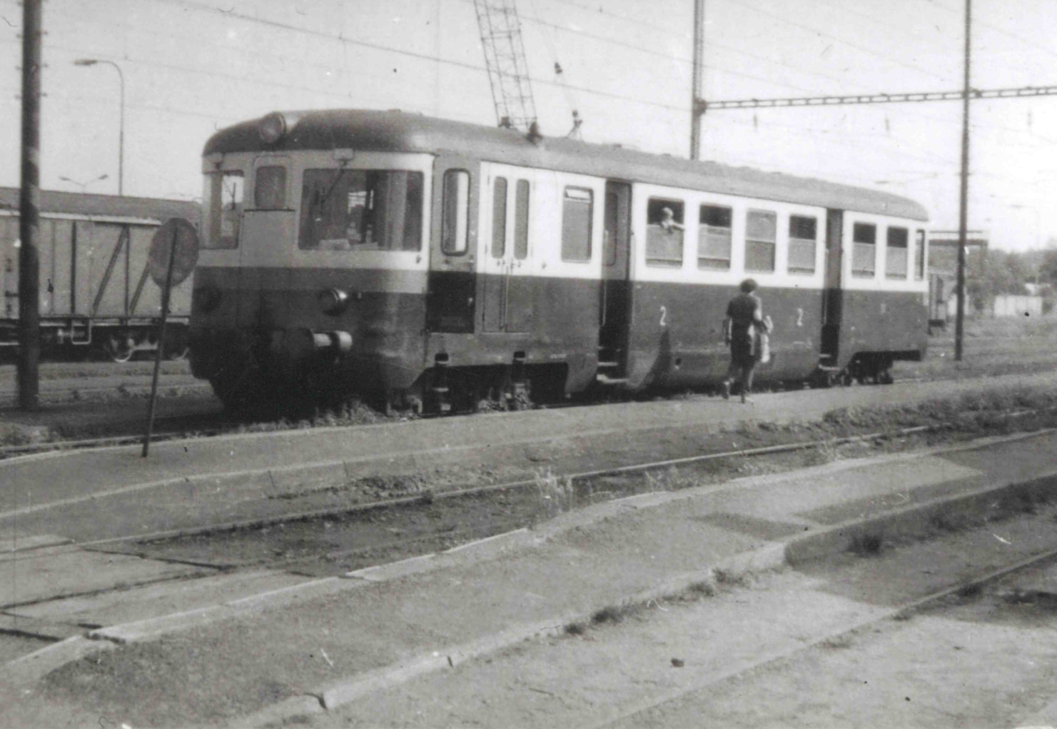 station Celakovice